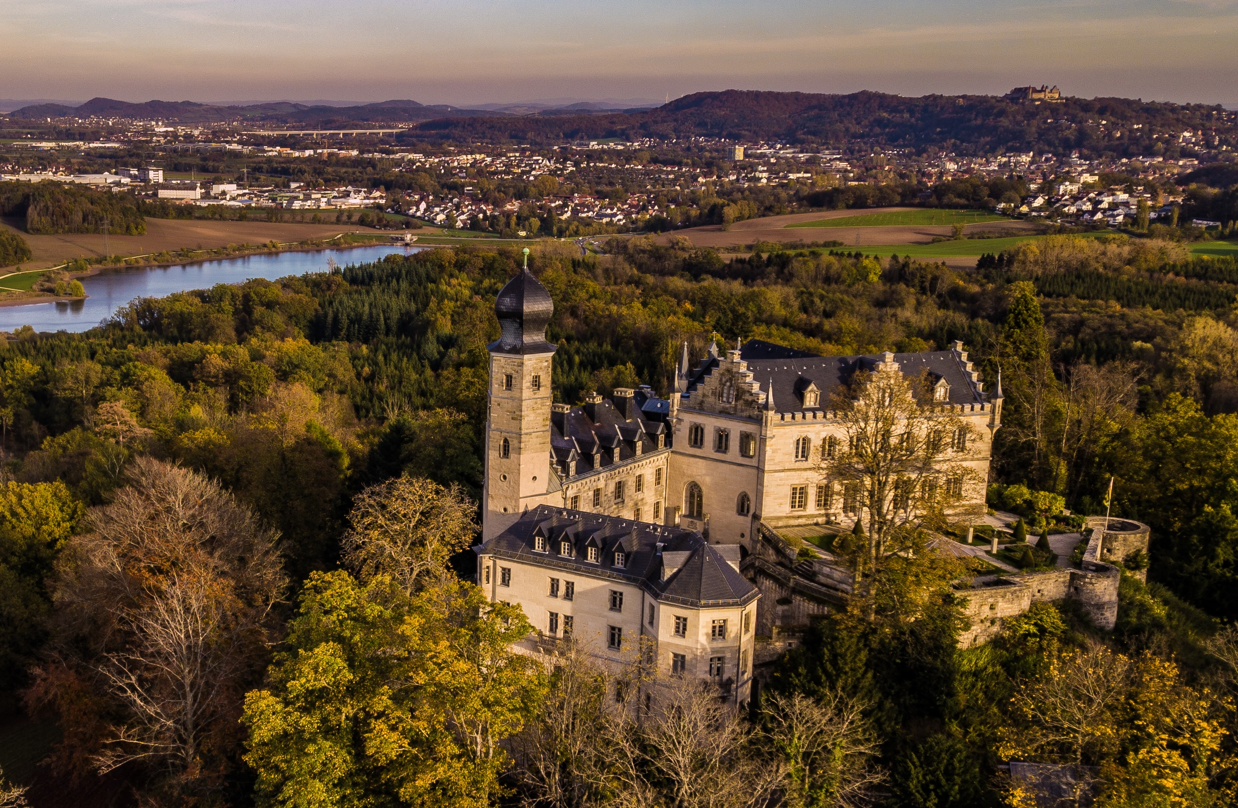 Callenberg Castle in Coburg (fall 2019)